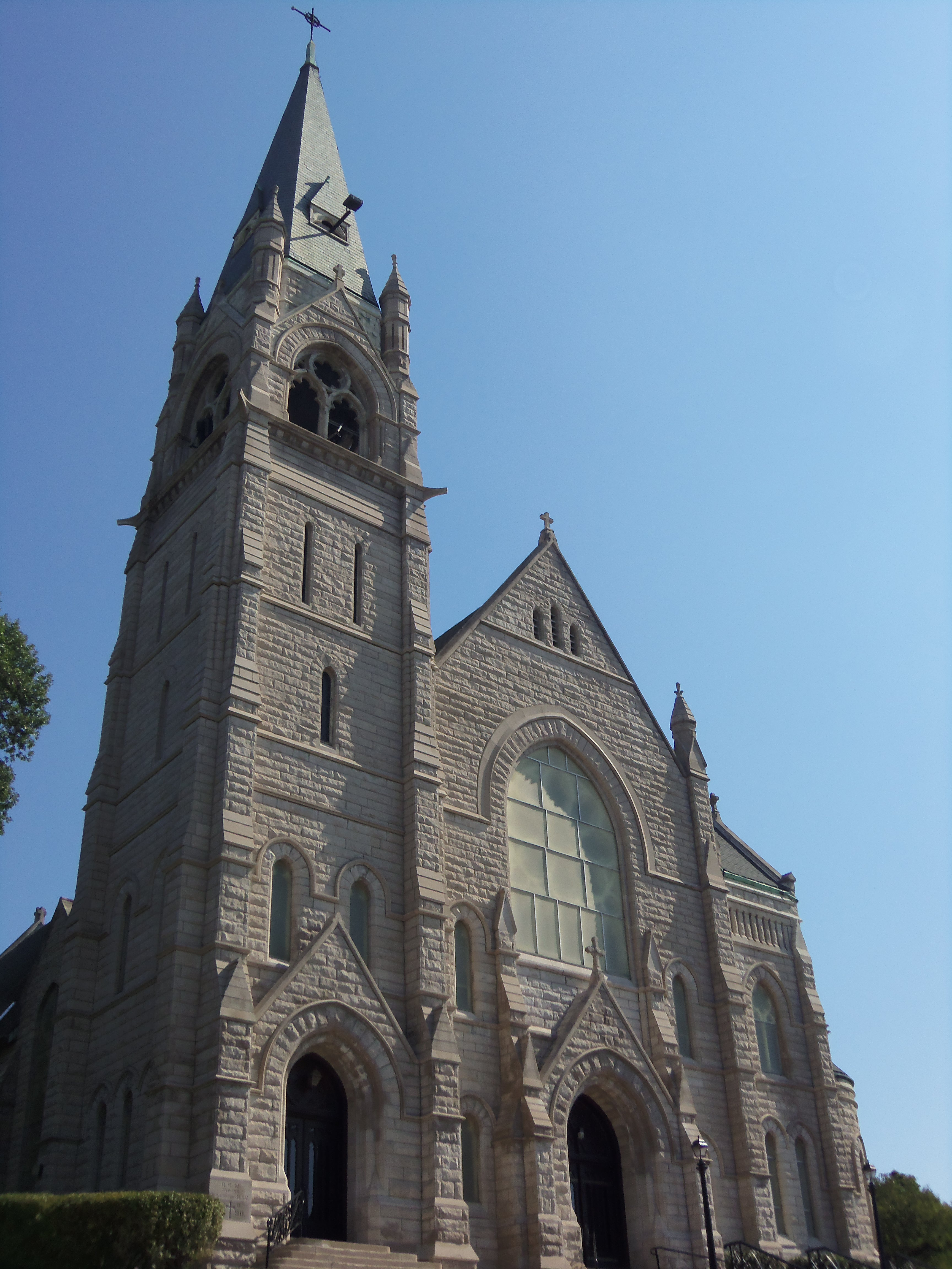 Sacred Heart Cathedral has been the cathedral church for the Catholic Diocese of Davenport since 1891. This view shows the church from the corner of Tenth and Iowa Streets. It is listed on the National Register of Historic Places.